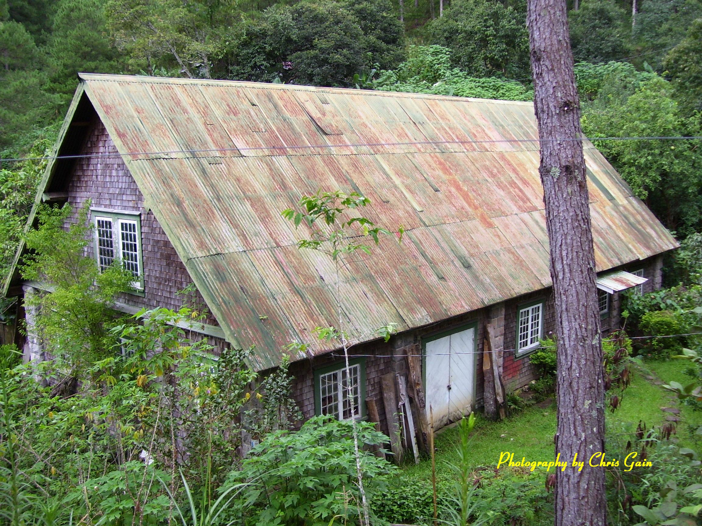 Sagada residence of William Henry Scott (historian), next to former Sagada Seminary, Mountain Province, Philippines, in 2007.